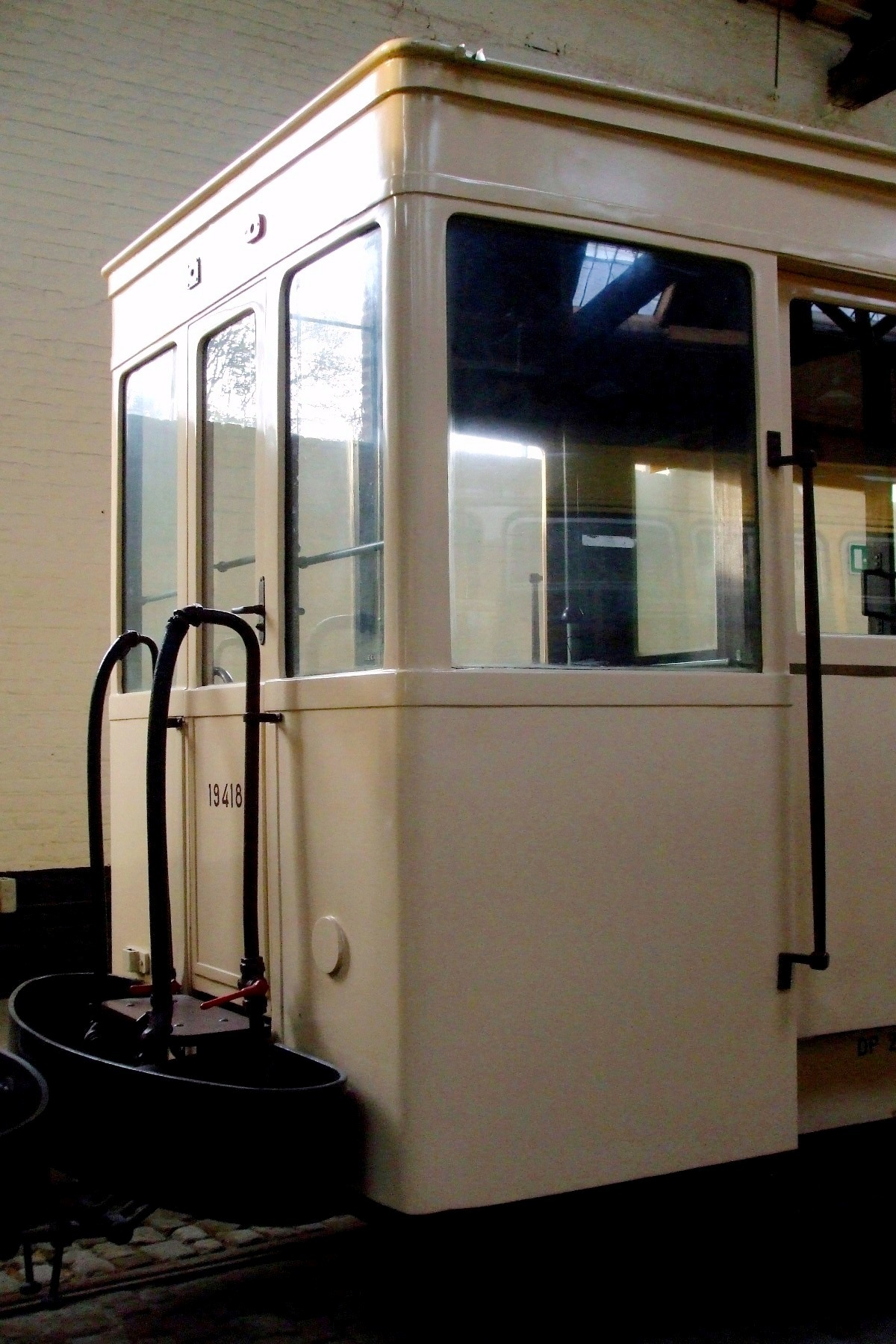 Keywords: SNCV, vicinal railways, rail, tram, trailer, type "Cureghem", Musée du Transport Urbain Bruxellois, Belgium